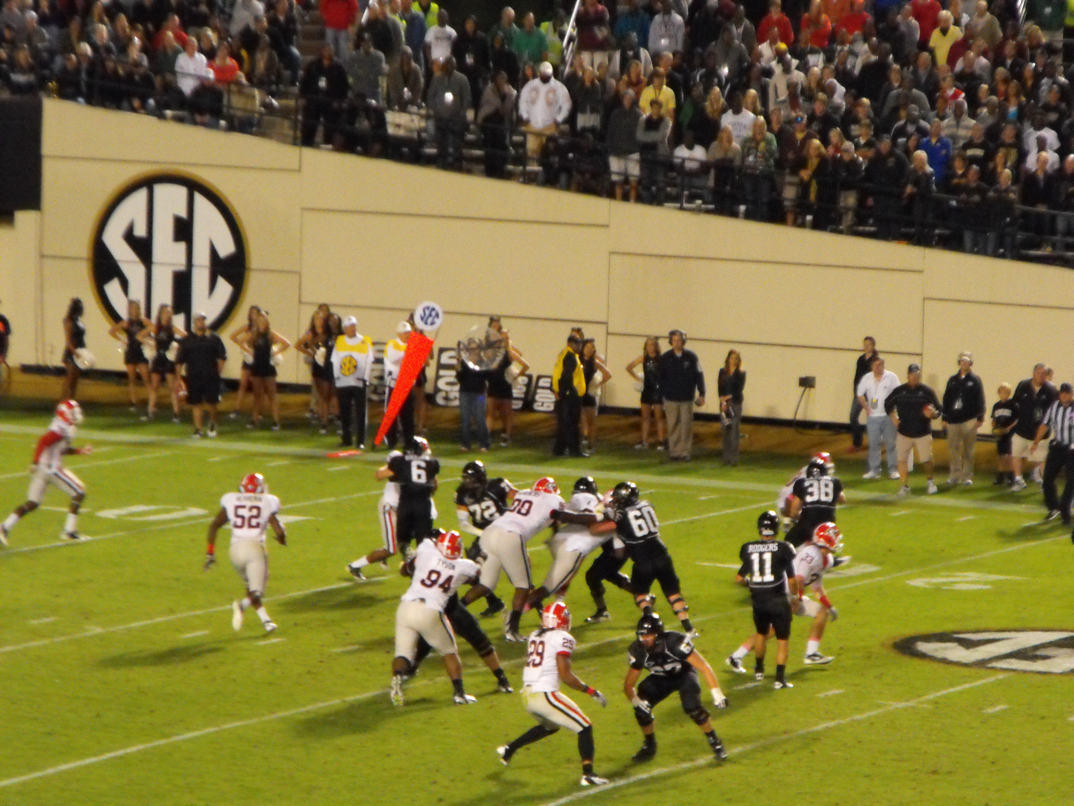 Made using Paint Pro XIIDate 15 October 2011Source Own workAuthor MDSankerOther versions released under GFDL Entirely my own work Made using Paint Pro XII